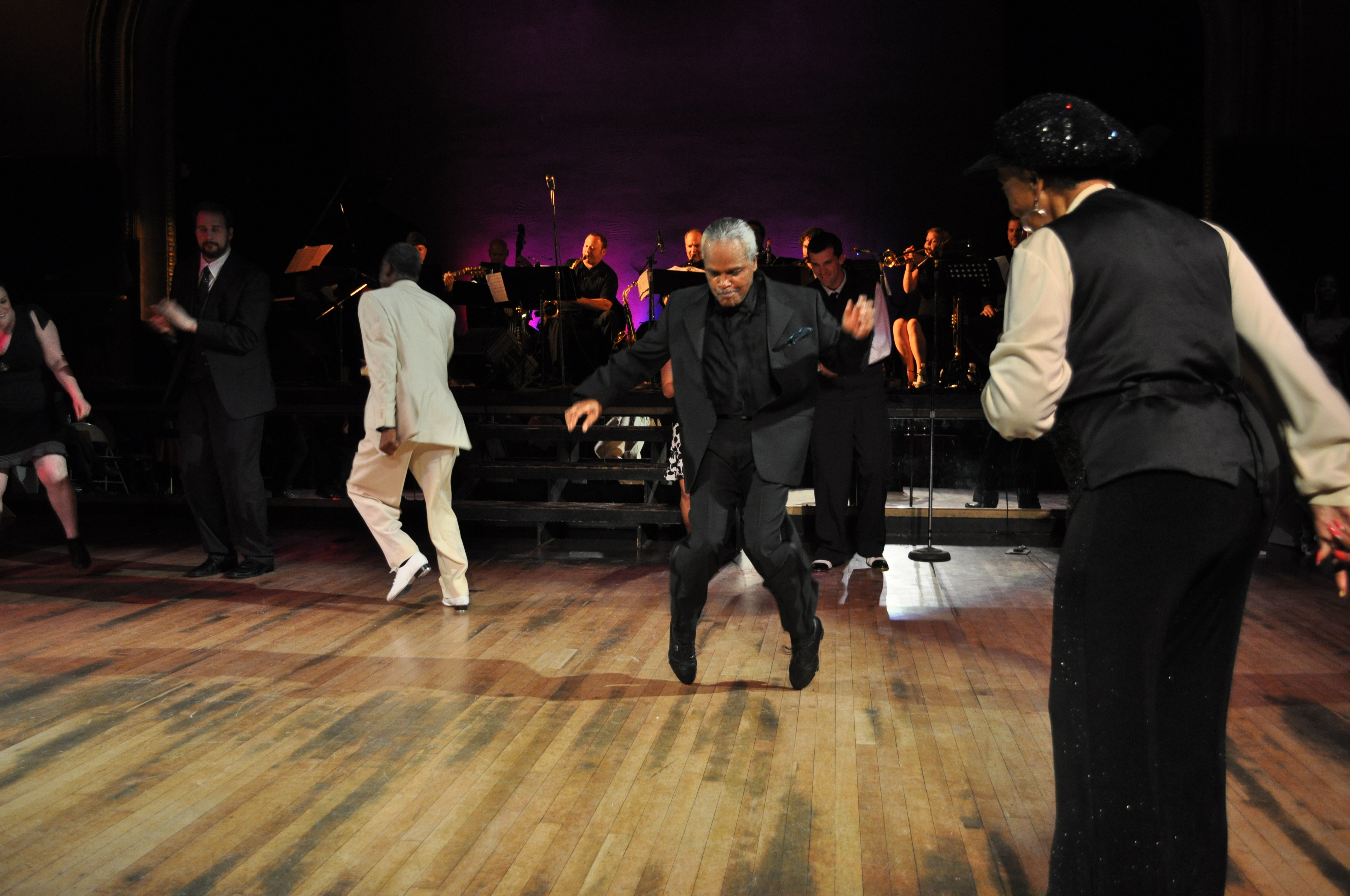 Finale of Masters' Exhibition, Masters of Lindy Hop and Tap, Century Ballroom, Oddfellows Temple, Pine Street, Capitol Hill, Seattle, Washington, USA. Skip Cunningham at center. At left, in white, with his back to us is Chester Whitmore, and at right, also from the back, is Norma Miller.